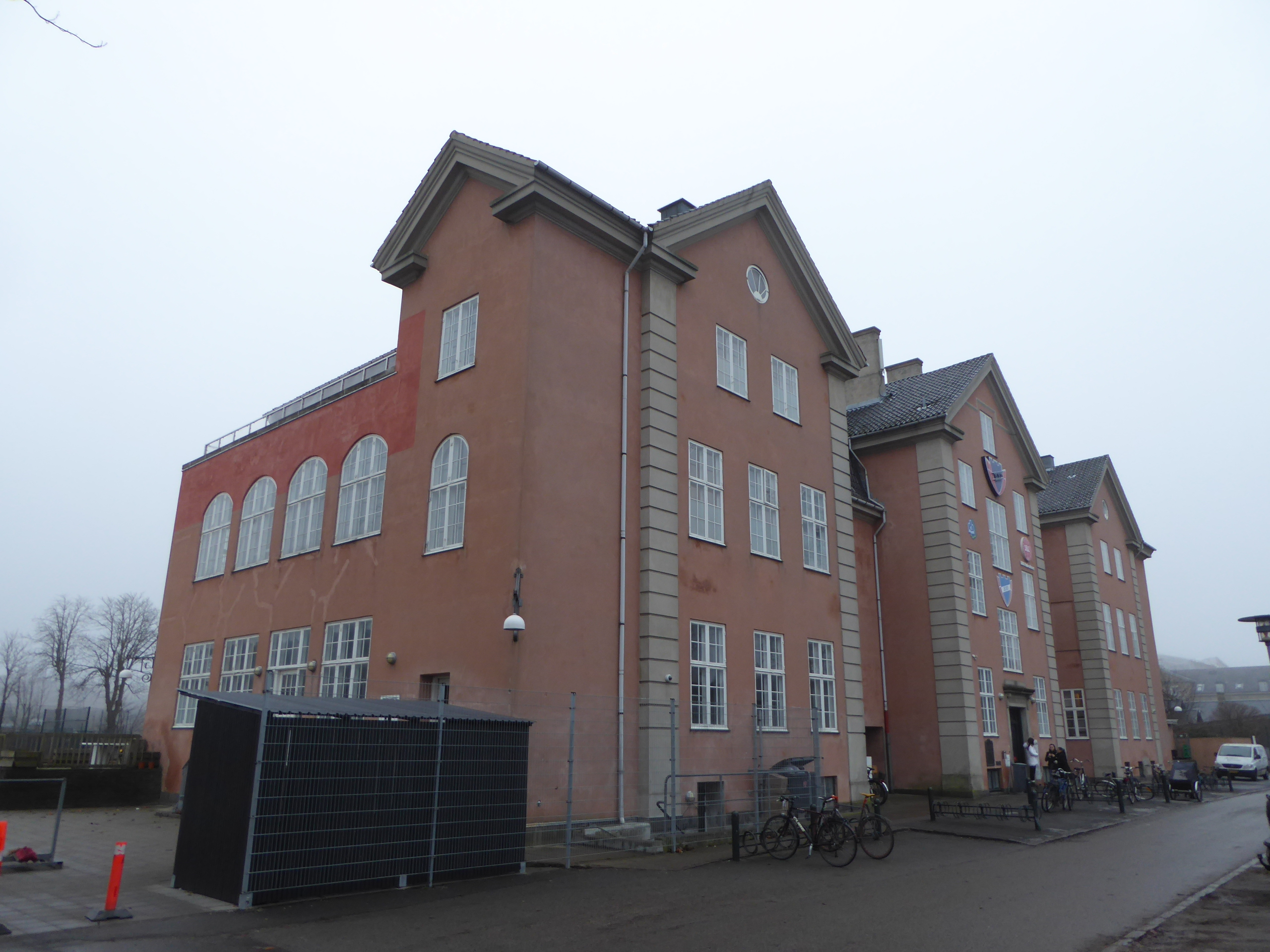 The club house of the soccer club B93 and the administration building of DBU København at Ved Sporsløjfen in Østerbro in Copenhagen.